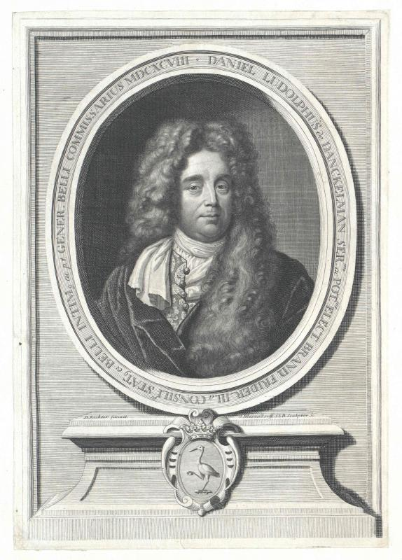 Daniel Ludolph von Danckelman (1648-1709)